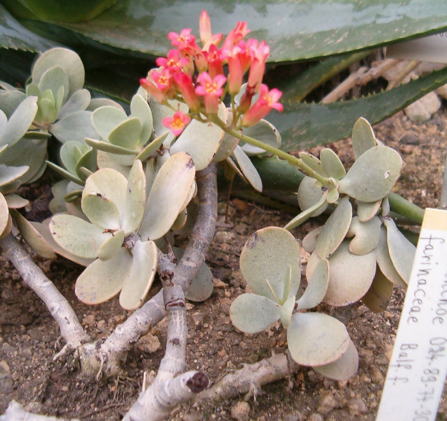 Location: Botanical Gardens Berlin Dahlem Xerophyt